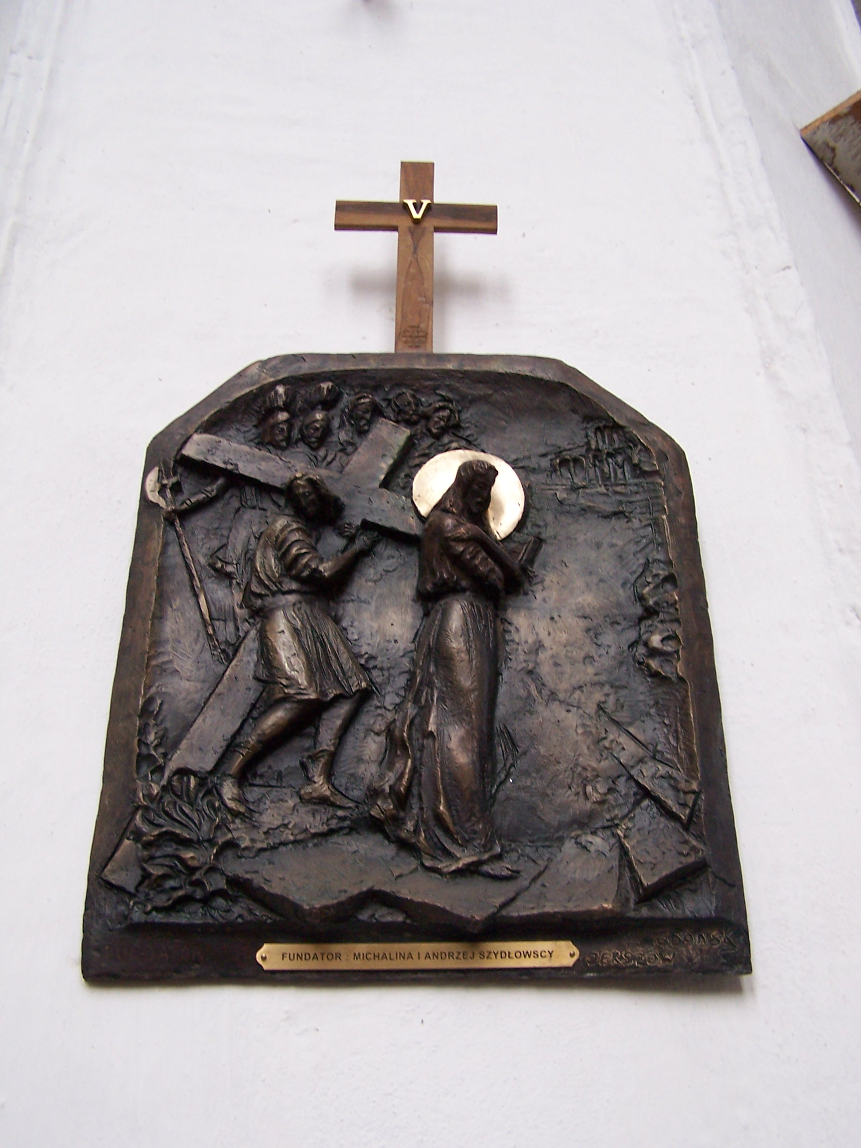 Sculpture by Giennadij Jerszow on the St. Mary's Church, Gdańsk